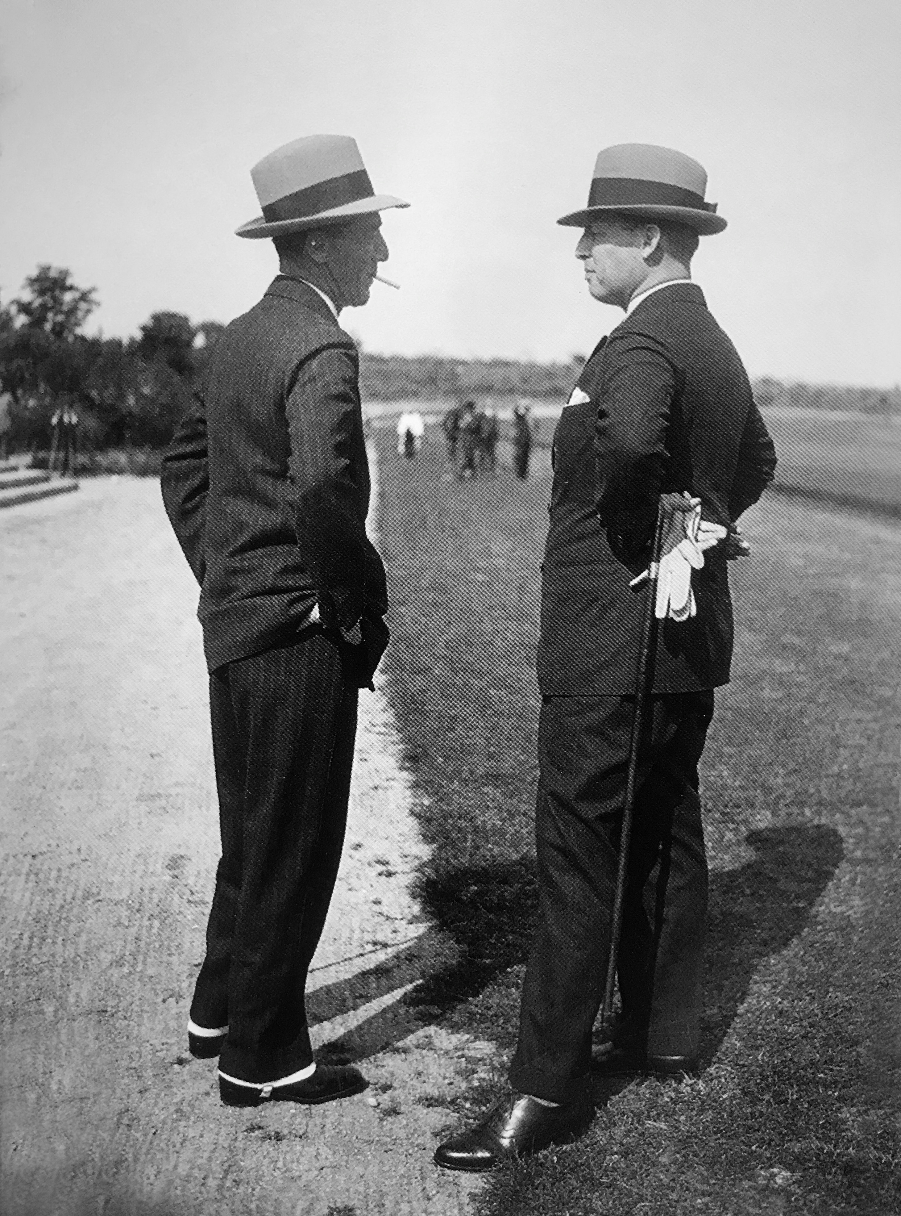 Jacobo Fitz-James Stuart, 17th Duke of Alba (left) and King George II of Greece (right) during a polo championship at Real Club de la Puerta de Hierro.